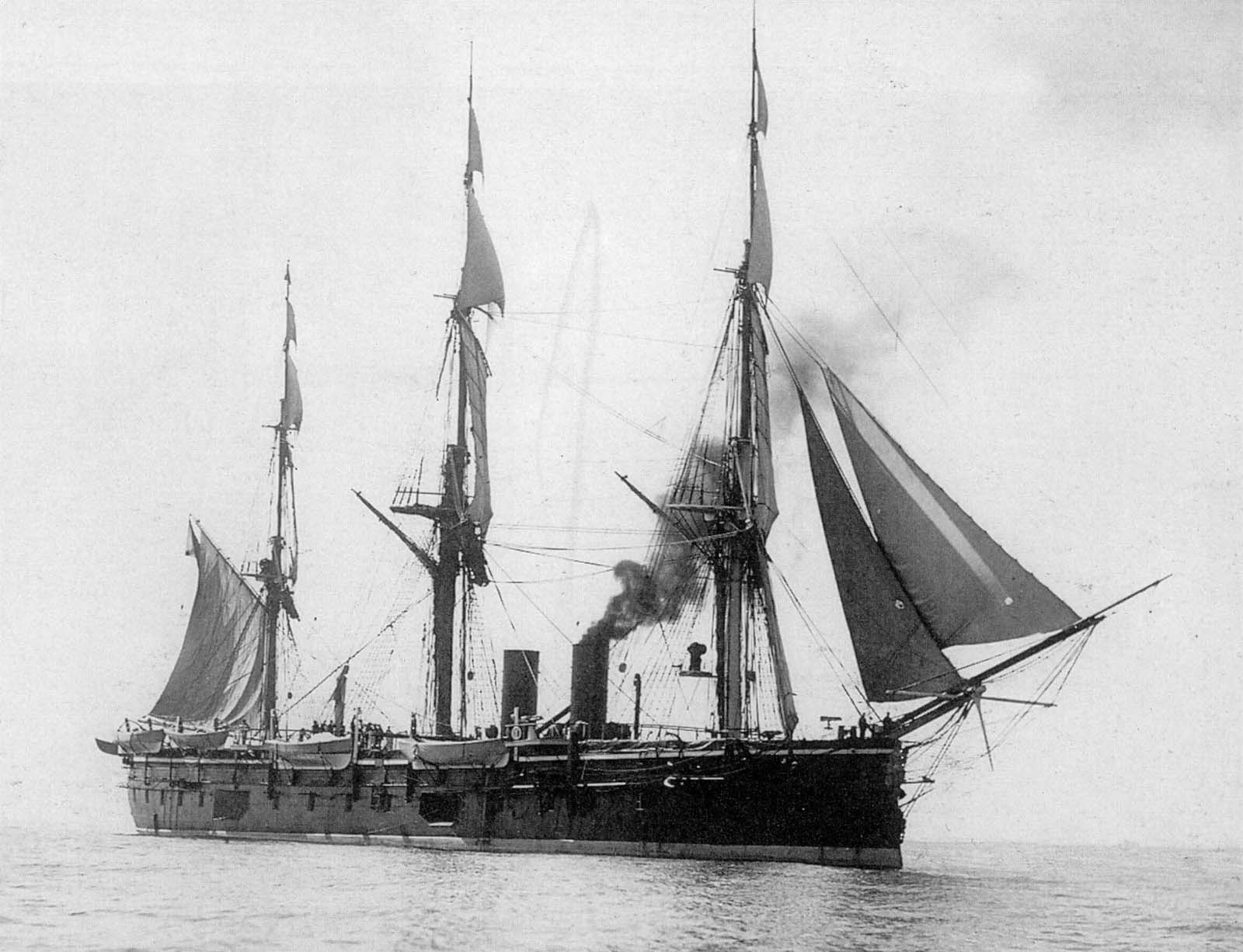 Imperial Russian armoured cruiser Kniaz' Pozharskii.